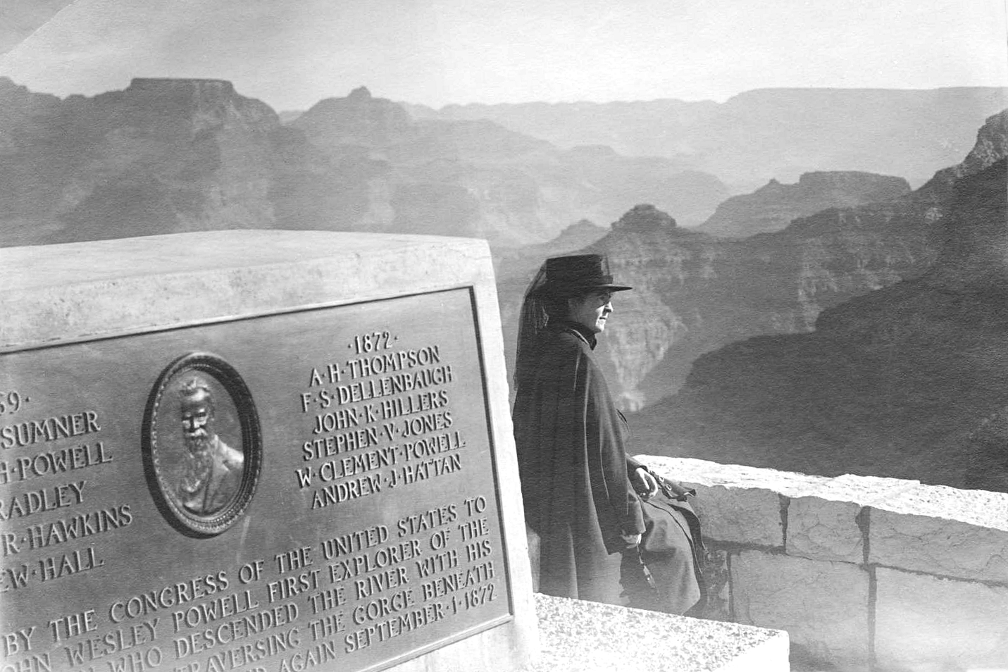 Portrait of violinist Maud Powell, niece of John Wesley Powell, American explorer, at the monument erected in his honor at the Grand Canyon, Arizona, 1918.[1]